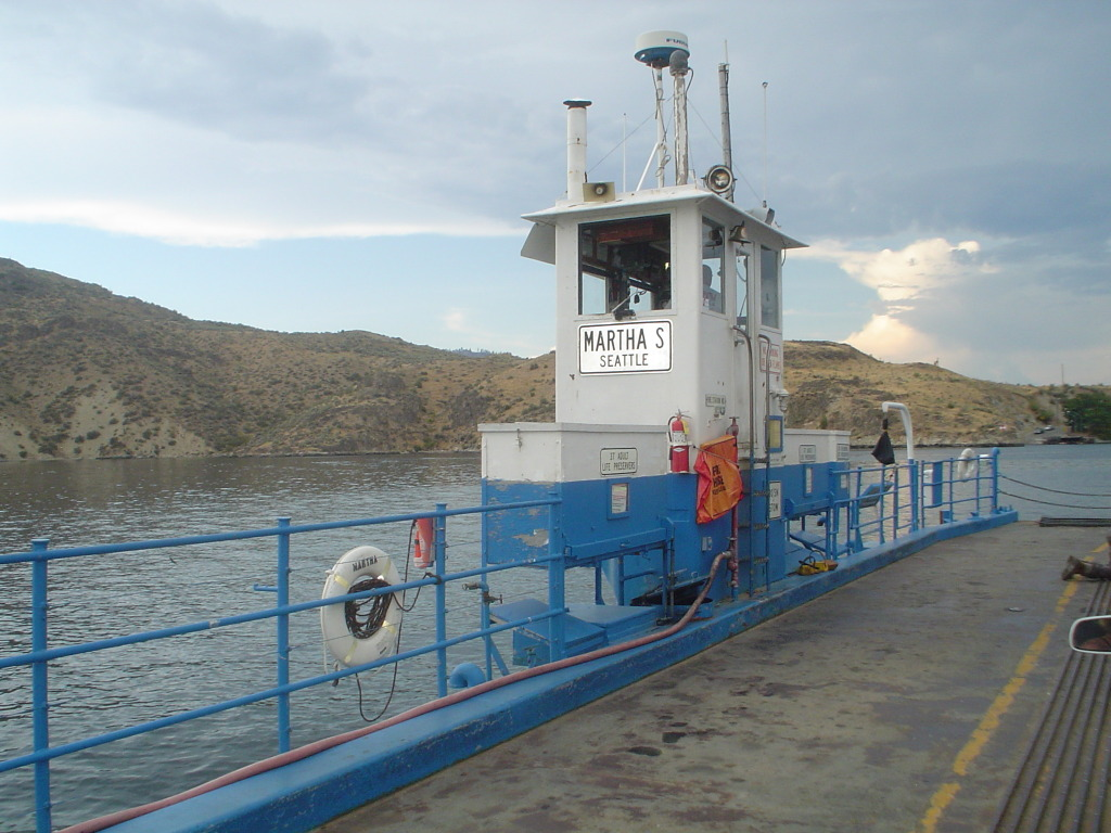 The Keller Ferry, or the Martha S., crossing Lake Roosevelt on the Columbia River in Washington state. Photo taken on July 28, 2009.